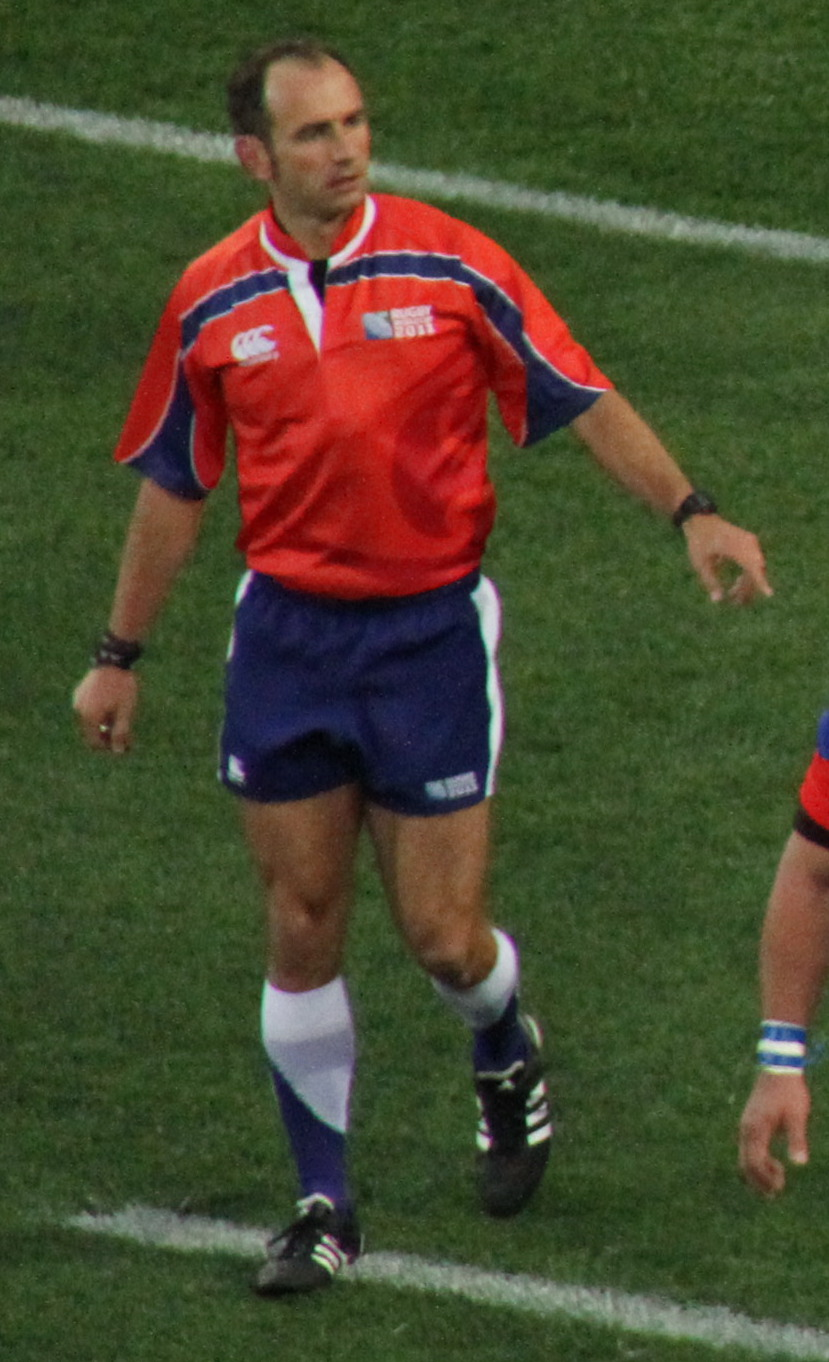 Refree Romain Poite during 2011 Rugby World Cup match between England and Romania.